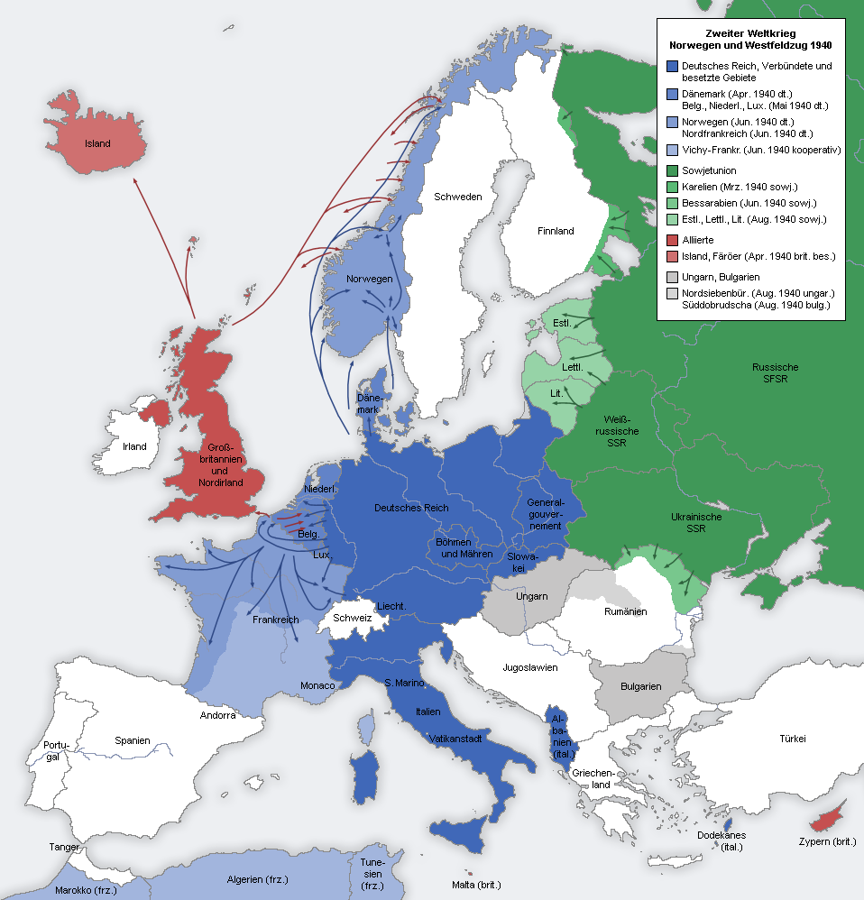 Second world war europe 1940, map de